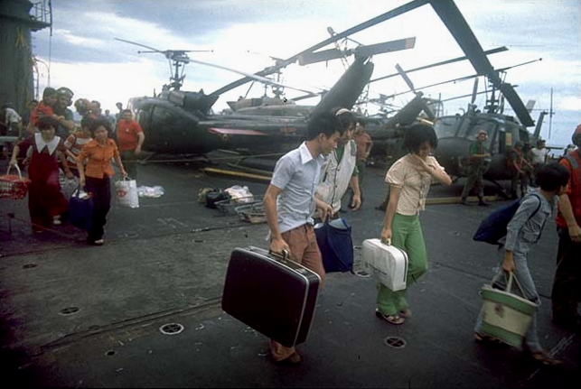 South Vietnamese refugees walk across a U.S. Navy vessel (probably USS Hancock (CVA-19)) during Operation Frequent Wind, the final operation in Saigon, Vietnam, 29 April 1975. Note the VNAF Bell UH-1 Huey helicopters in the background.